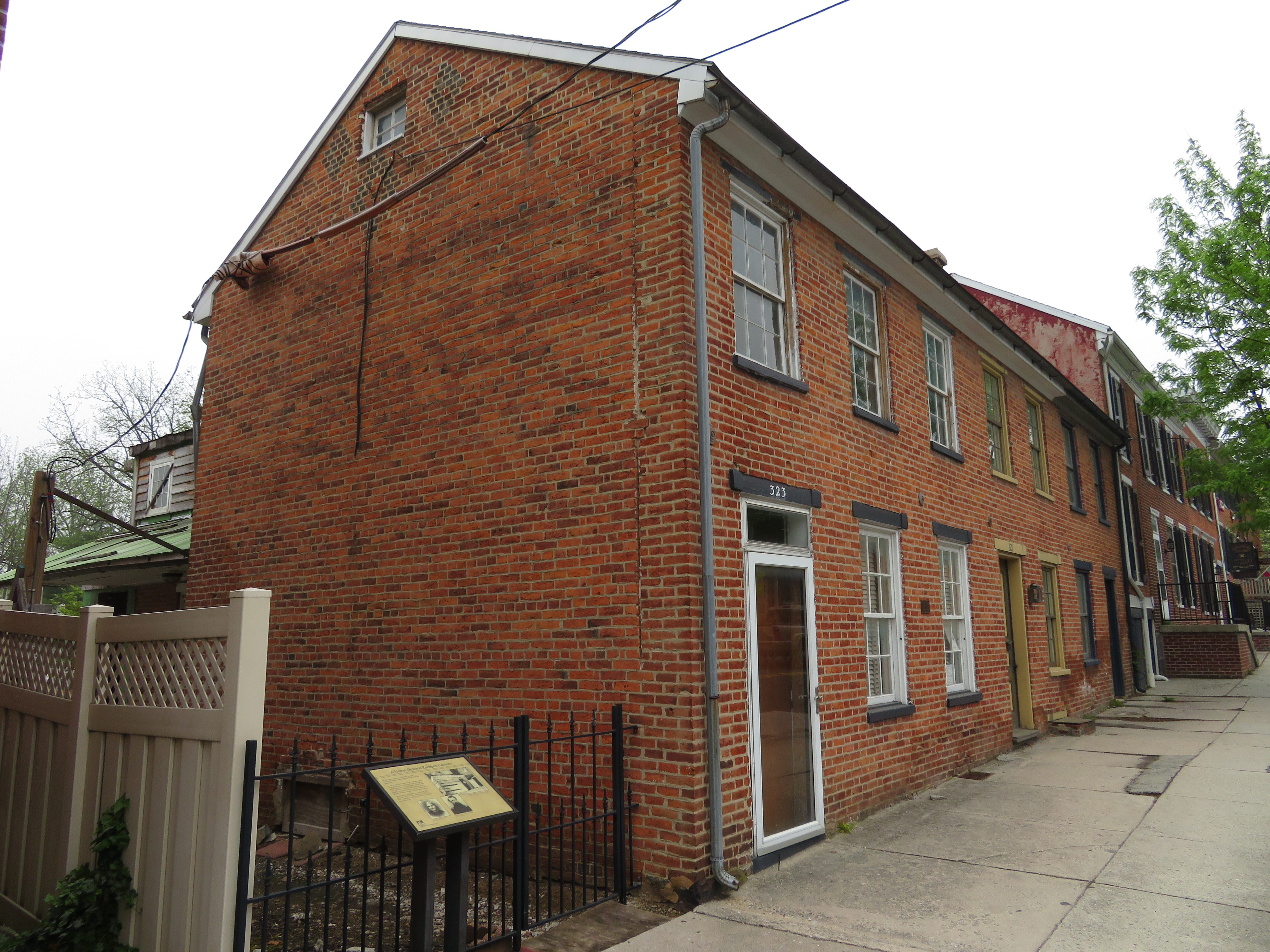 Garlach House in Gettysburg; Hiding Place of Union General Alexander Schimmelfennig